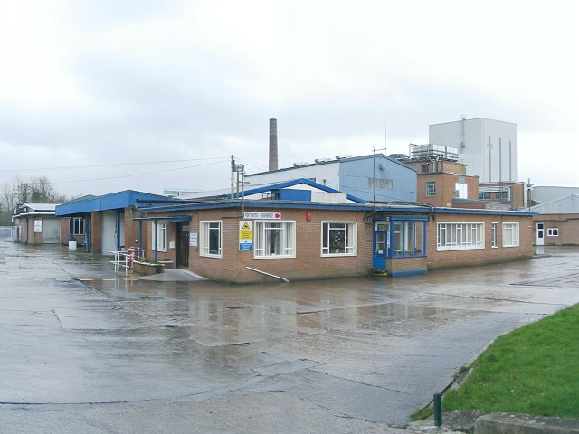 Llangadog Creamery This creamery closed in 2005 with the loss of nearly 200 jobs. Yet it does not seem run down. On a quiet Sunday there are several frozen food lorries parked up. The gate now bears the sign "Castell Howell". Perhaps this meat company is now using the freezer facilities. Original story